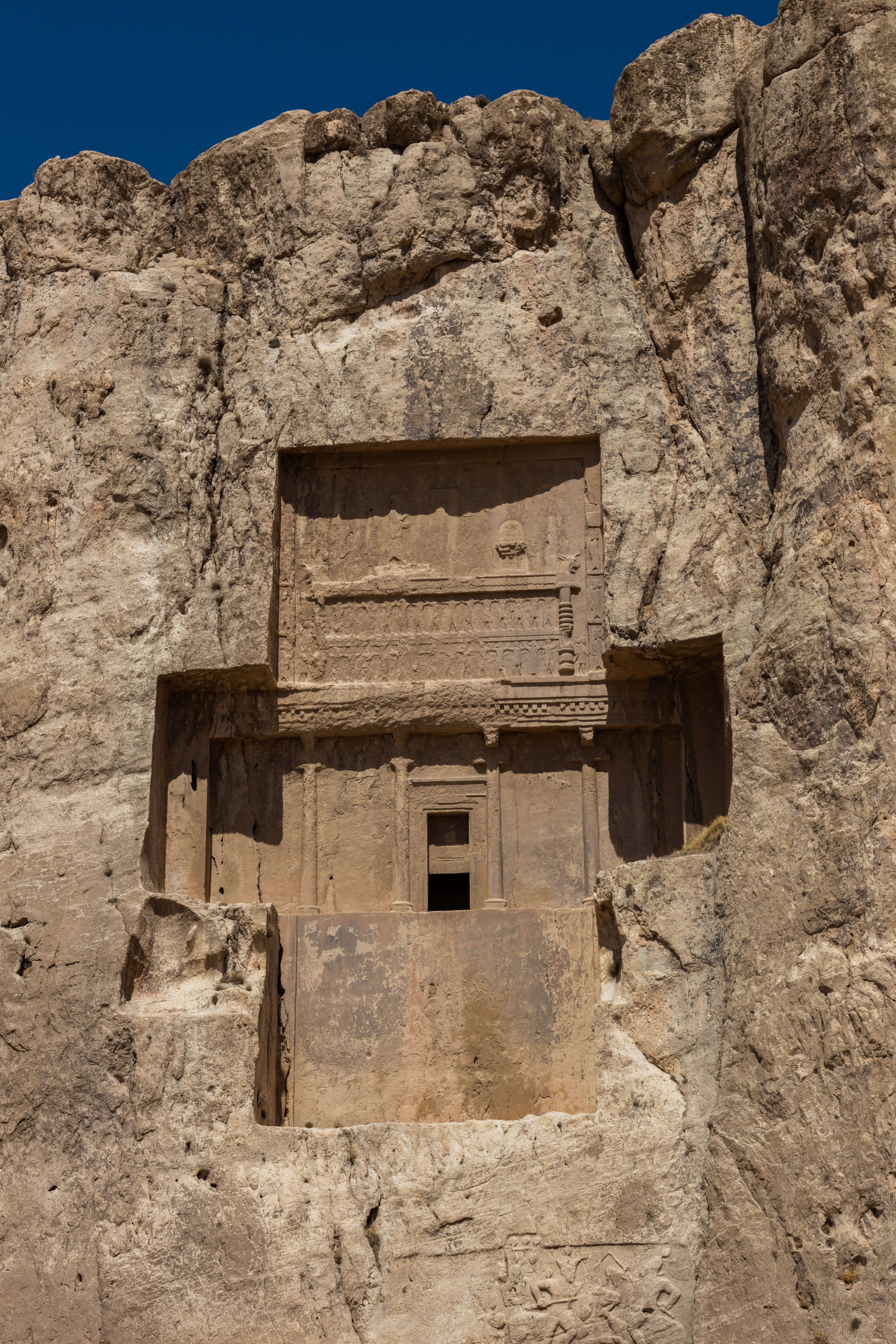 Naghsh-e rostam, Iran